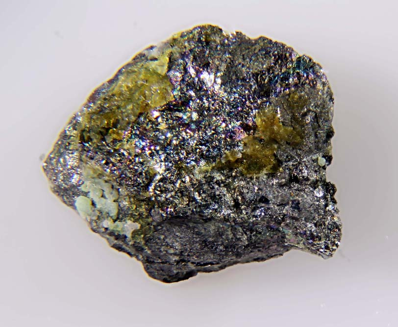 Greenish yellow crystals of the very rare mineral lazarenkoite from the type locality: Khovu-Aksy, Tuva, Siberia, Russian Federation. Lazarenkoite is one of the very few arsenites known. Ex. Dr. Hartel collection.